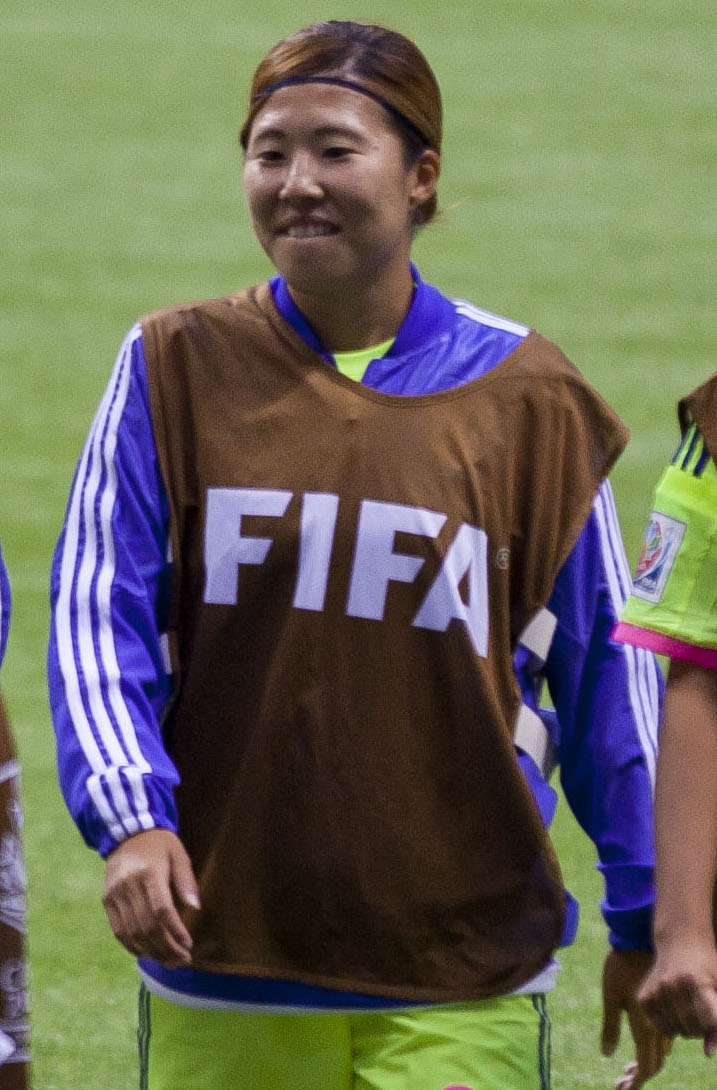 FIFA Women's World Cup Canada June 12th, 2015